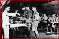 Eat in Fordham's Accommodation underground parallel chambers within the Rock of Gibraltar built during the Second World War.